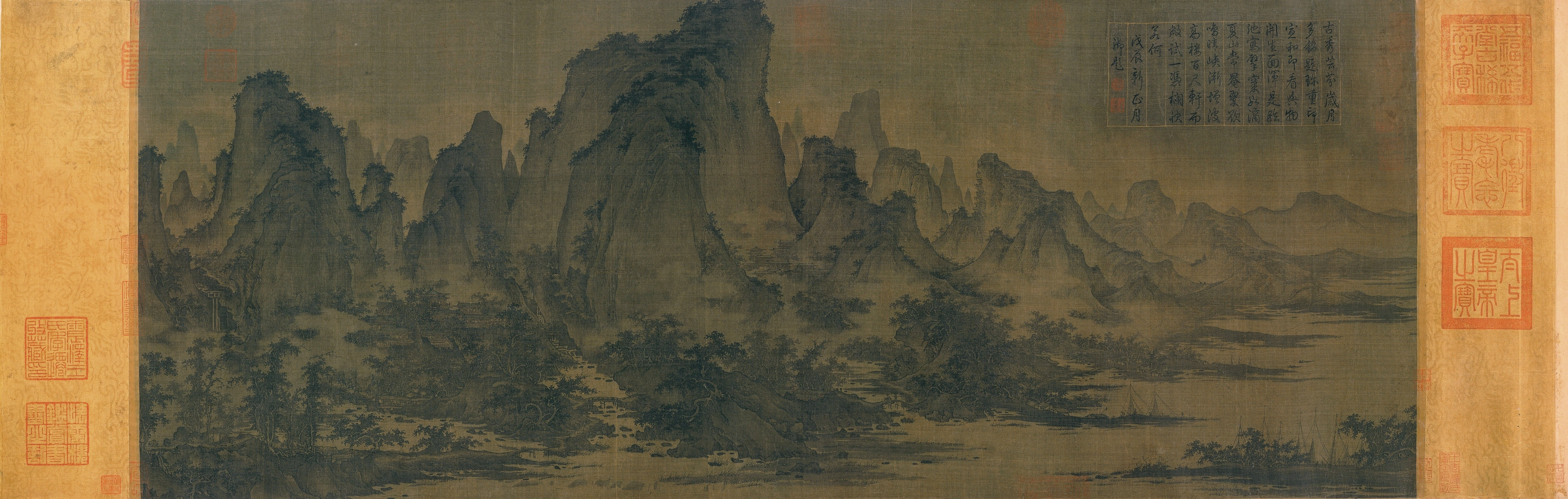 Qu Ding, Summer Mountains, Metmuseum, NY